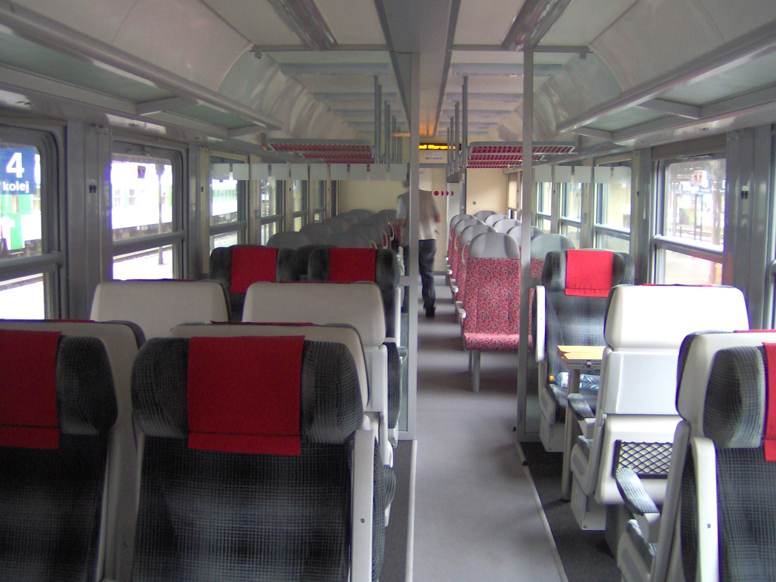 Interior of control car class 954.2, Brno main station, Czech Republic